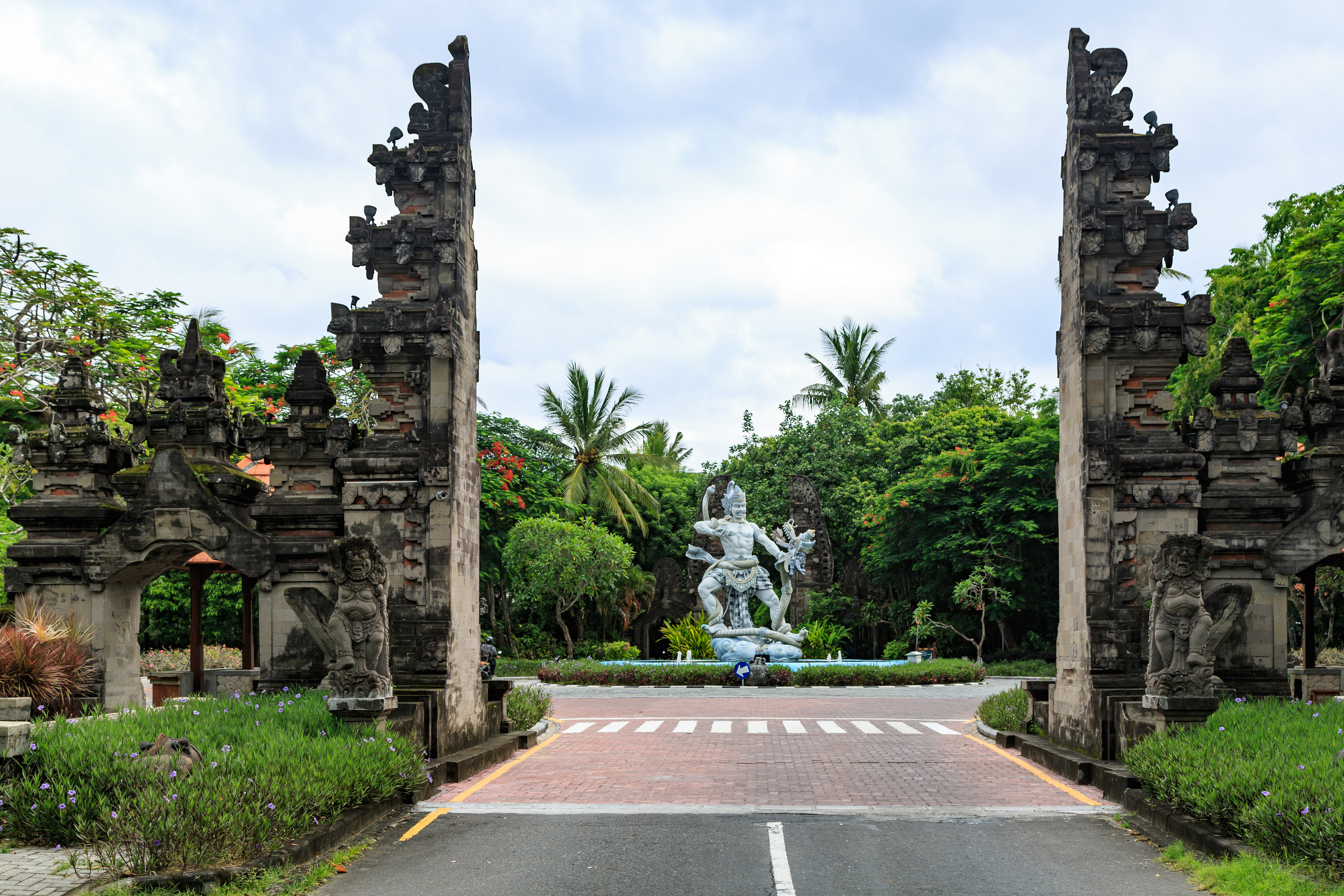 Nusa Dua, Bali, Indonesia: The southern gate of the Nusa Dua area